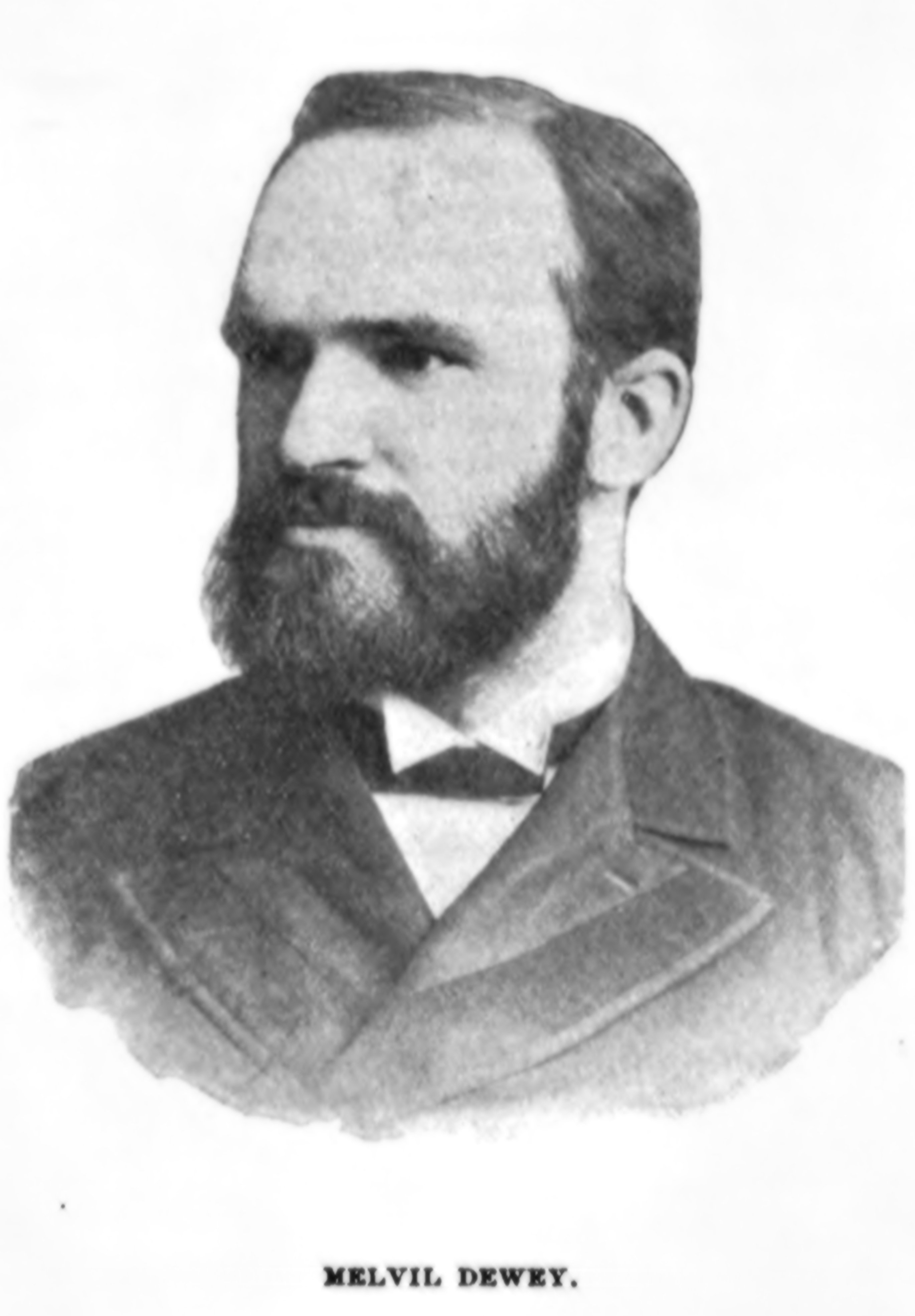 Melville Louis Kossuth (Melvil) Dewey (December 10, 1851 – December 26, 1931) was an American librarian and educator, inventor of the Dewey Decimal system of library classification